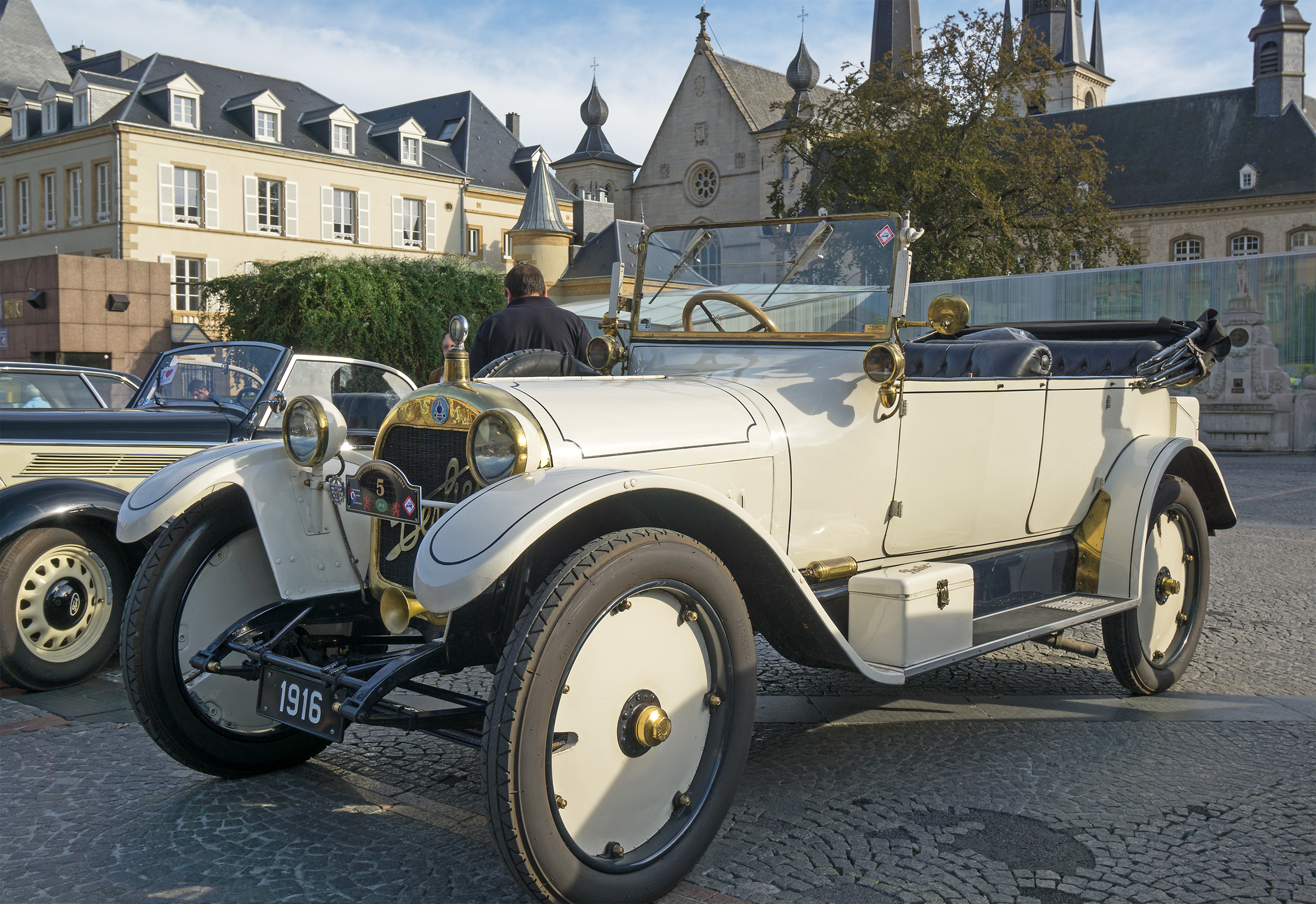 Berliet Type VB from 1919; FIVA World Rally Luxembourg 2014